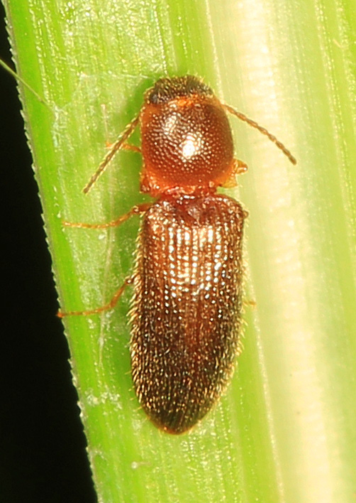 Click Beetle - Limonius nimbatus, Smithsonian Environmental Research Center, Edgewood, Maryland. 6/6/2015 Anne Arundel County ID by Bugguide